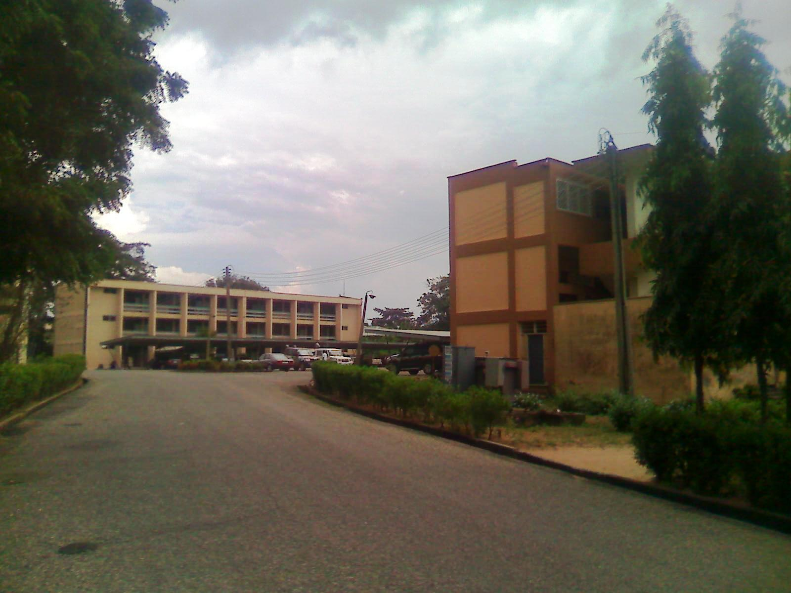 Eastern Regional Headquarters of the Ghana Ministries, Koforidua